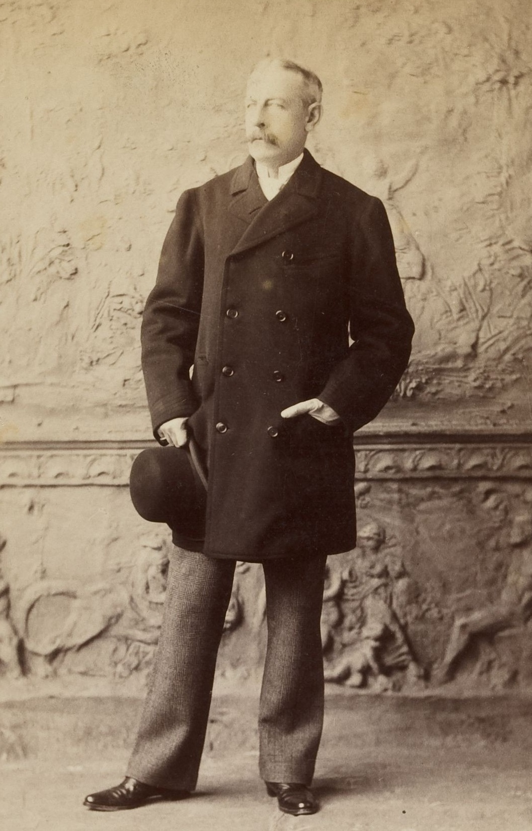 Cabinet card image of James Gordon Bennett, Jr. (d. 1918), standing with one hand in his pocket. Cropped version. TCS 1.2292, Harvard Theatre Collection, Harvard University